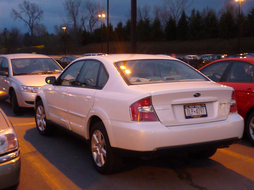 We all know about the Outback Wagon, common in these parts of the US, but the Outback Sedan is more of an unknown commodity. The particular model you see here was offered from 05-07, but Subaru didn't sell too many of them, actually making them quite rare. Subaru dropped both the Outback Sedan and the regular Legacy Wagon for 2008, and even with the redesigned 2010 models coming out it is unlikely we in the States will ever see these variants again.